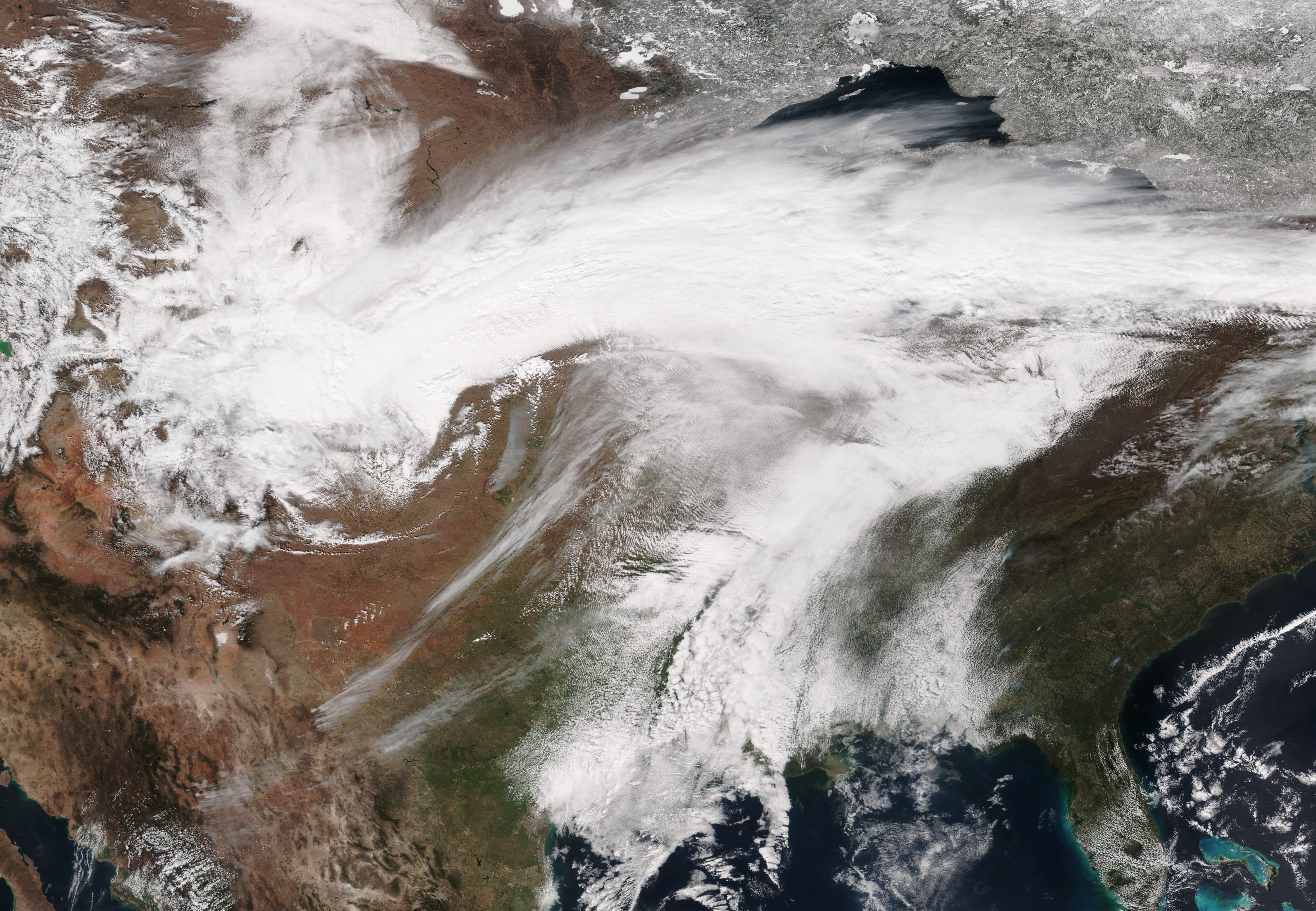 The winter storm moving across the country on March 23, 2016.